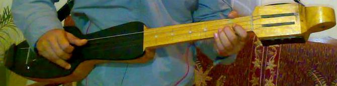 Front view of duitara, khasi folk instrument.